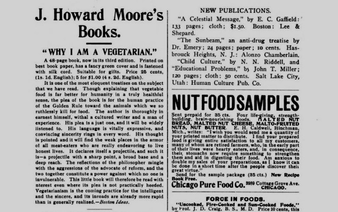 Advertisement for Why I Am A Vegetarian by J. Howard Moore.